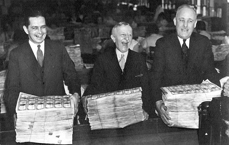 James H. Douglas Jr. during his tenure as Assistant Secretary of the Treasury with Federal Reserve Chairman Eugene Robert Black and Federal Reserve President George L. Harrison.